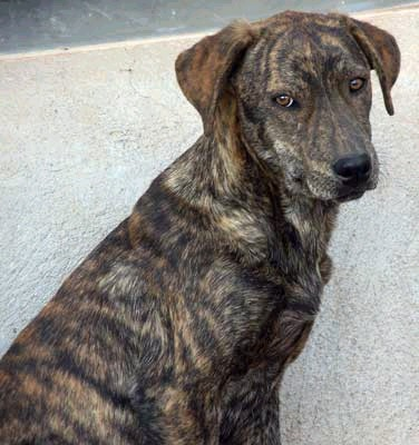 Mountain Cur (six months old)